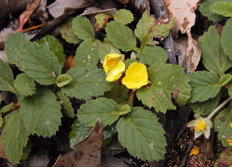 Hibbertia grossulariifolia, groundcover, near Mammoth Cave, MArgaret River region dec 2004. Photo: Cas Liber